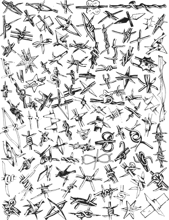 A collection of various barbed wires